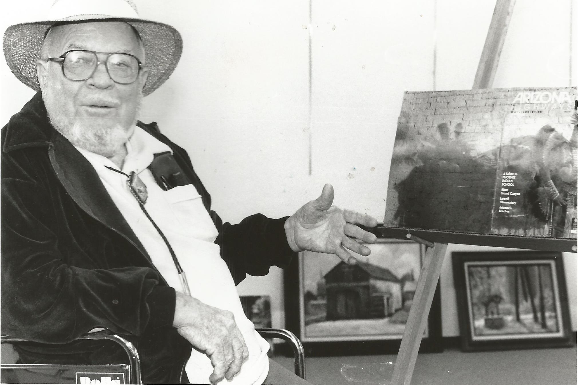 Photo of Carl Maurice Thorp